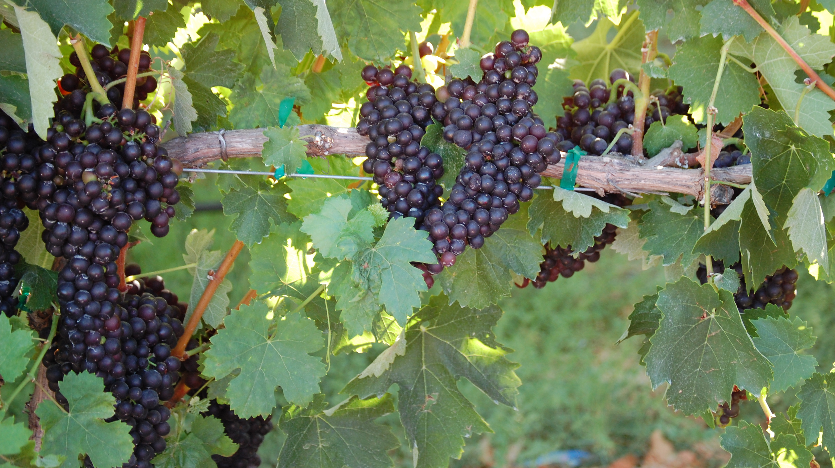 Documentary snapshot of grapes growing in a vineyard along State Route 12 in Kenwood, California. Polaroid snapshot image taken in 2006. Photo by David Jordan. Please credit the photographer when using this photo.